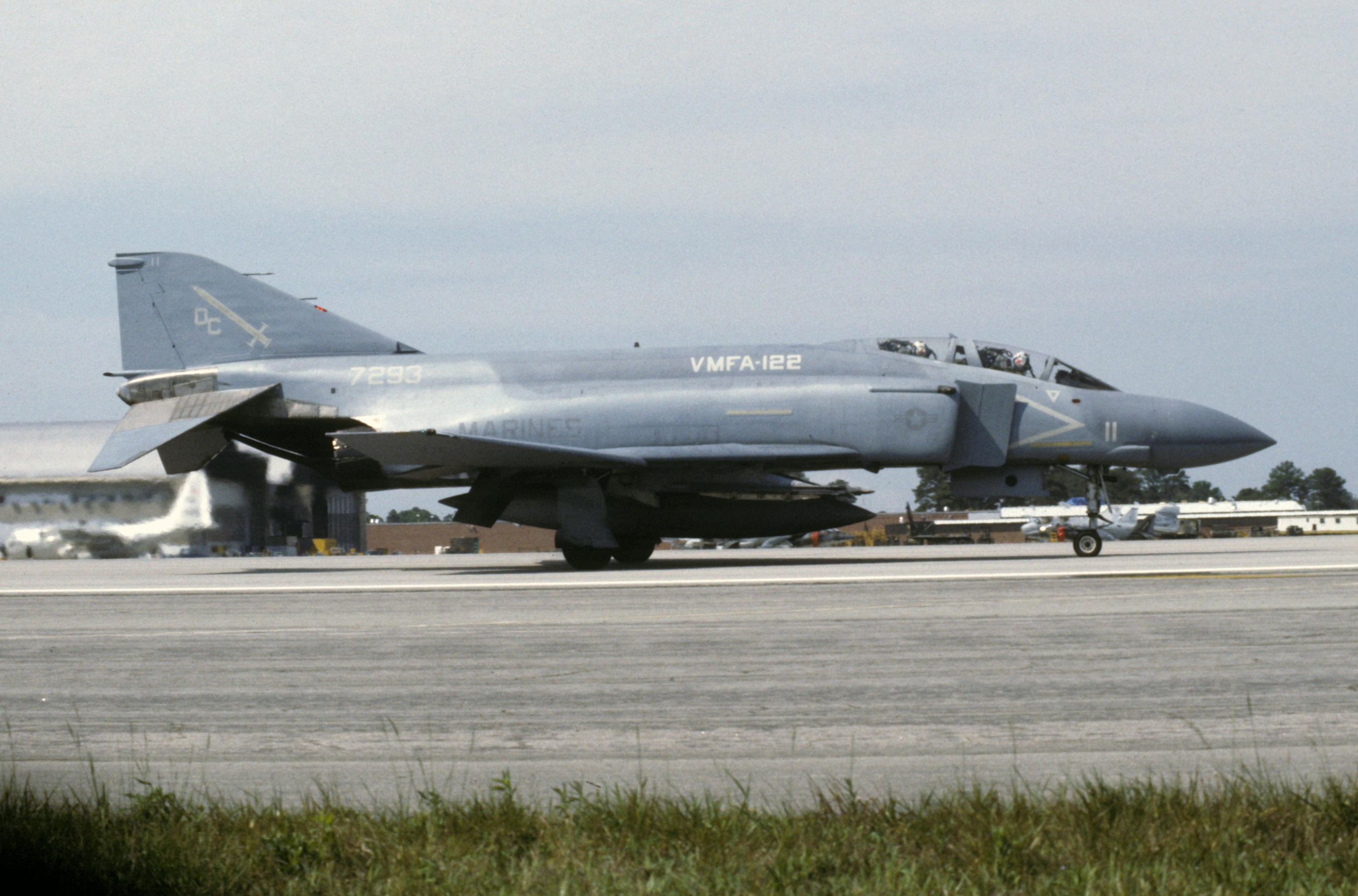 An U.S. Marine Corps McDonnell Douglas F-4S Phantom II aircraft (BuNo 157293) of Marine Fighter Attack Squadron 122 (VMFA-122) Crusaders prepares to take off during an air show at Marine Corps Air Station Cherry Point, North Carolina (USA).